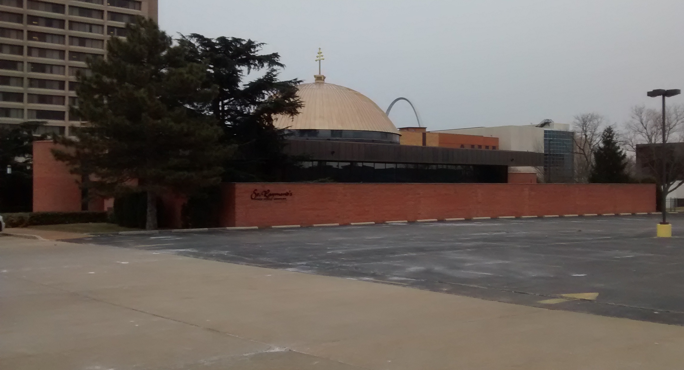 St Raymond Maronite Cathedral, St Louis, Missouri